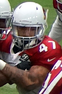 Drew Stanton # 5 handing the ball off